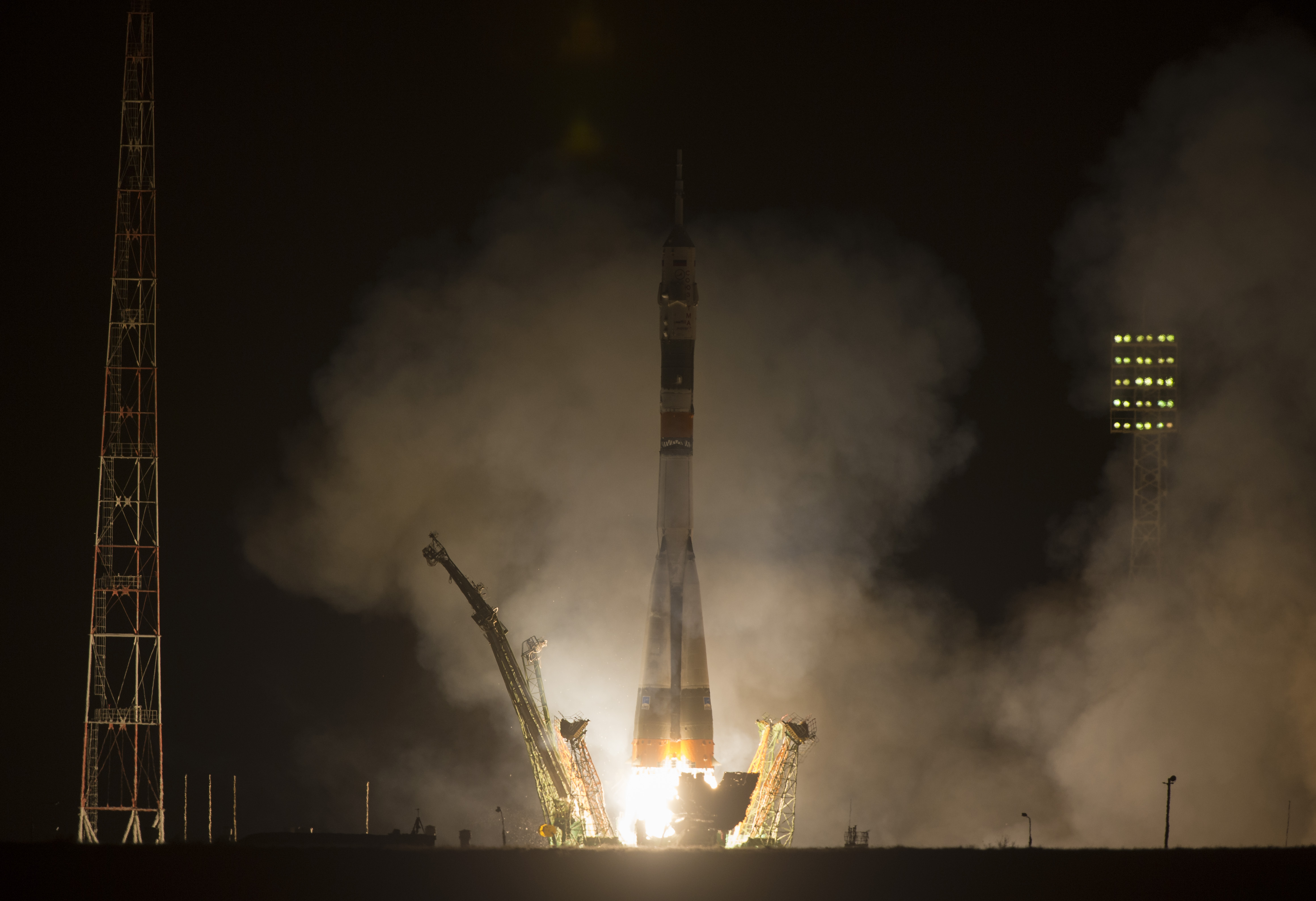 The Soyuz TMA-08M rocket launches from the Baikonur Cosmodrome in Kazakhstan on Friday, March 29, 2013 carrying Expedition 35 Soyuz Commander Pavel Vinogradov, NASA Flight Engineer Chris Cassidy and Russian Flight Engineer Alexander Misurkin to the International Space Station. Their Soyuz rocket launched at 2:43 a.m. local time.